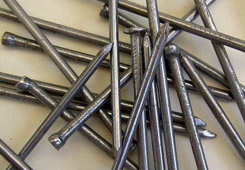 Nails